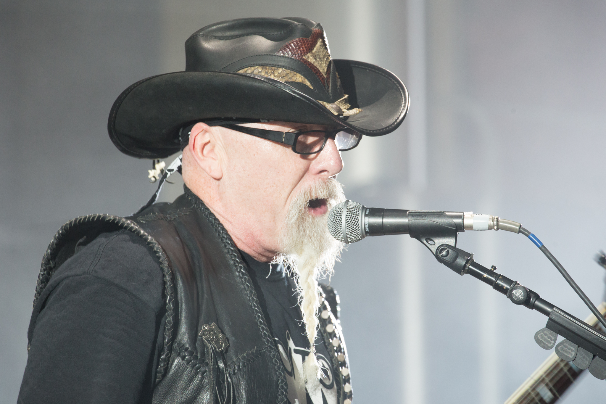 Whiplash performing at 70.000 tons of metal, january 2015